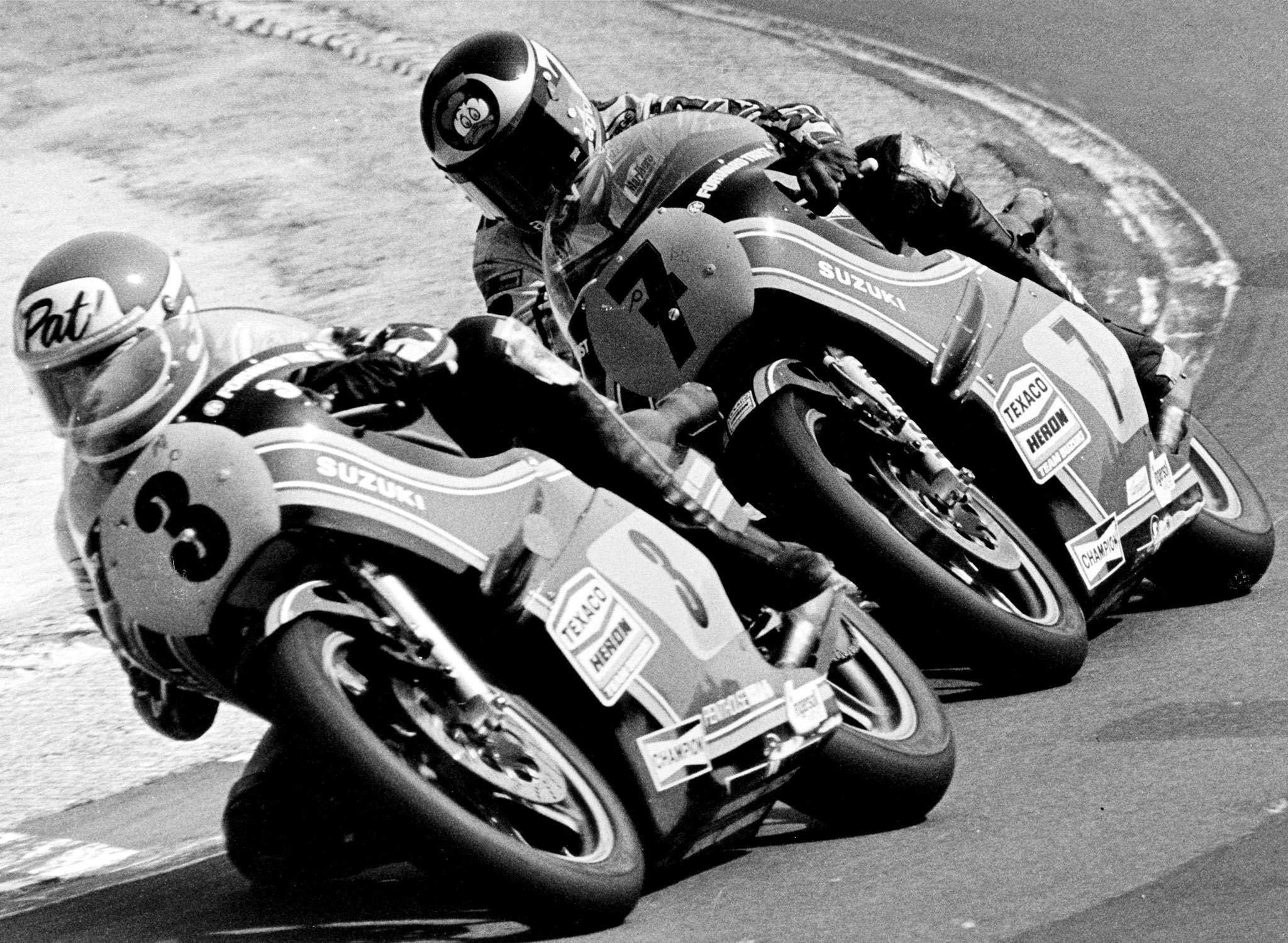 Taken in 1978 on 35mm film then rephotographed for flickr Pat Hennen and Barry Sheene the week before the trip to the Isle of Man where Pat hit a bird at 150 mph.